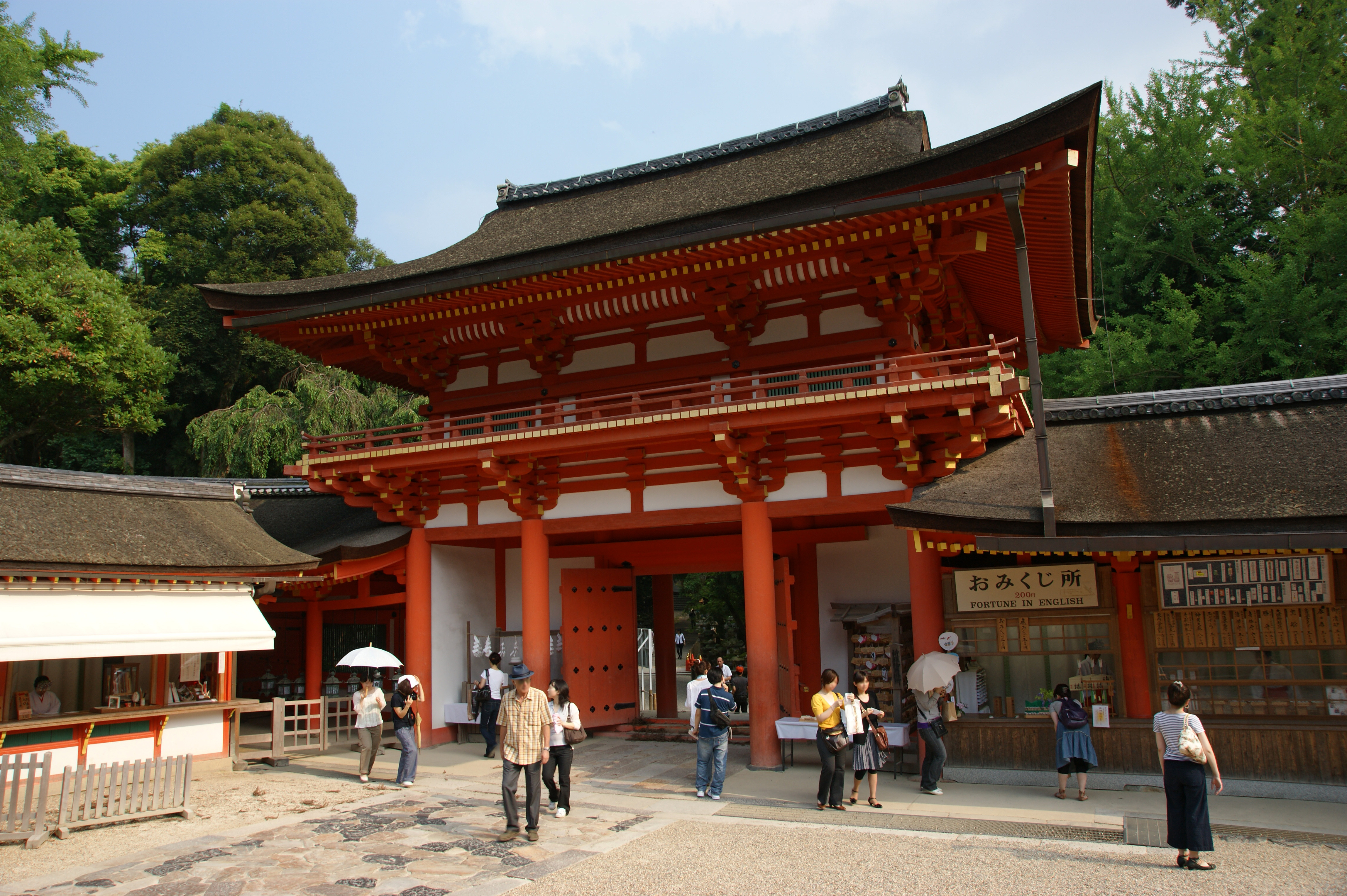 Kasuga-taisha in Nara, Nara prefecture, Japan